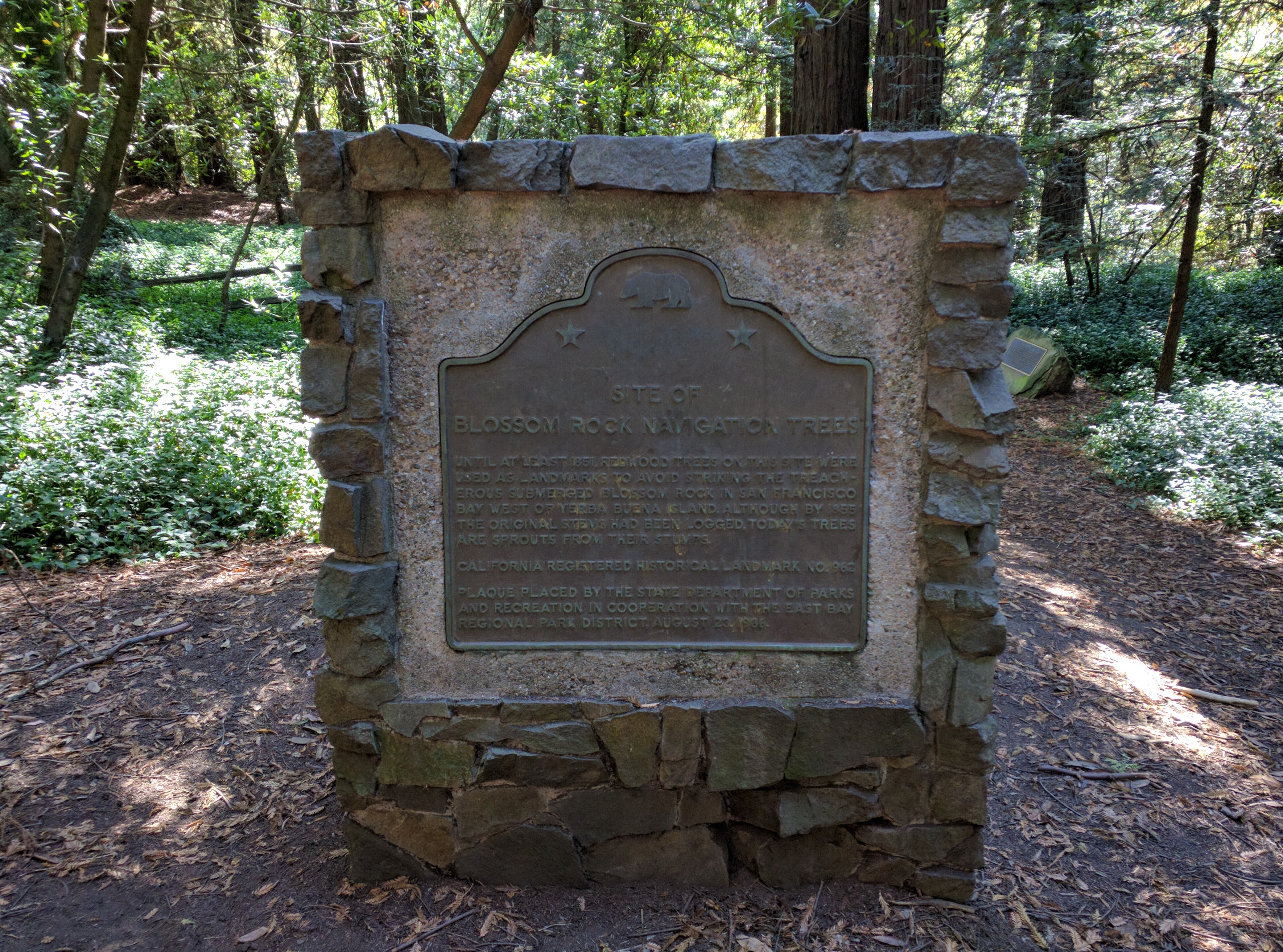 Site of Blossom Rock Navigation Trees